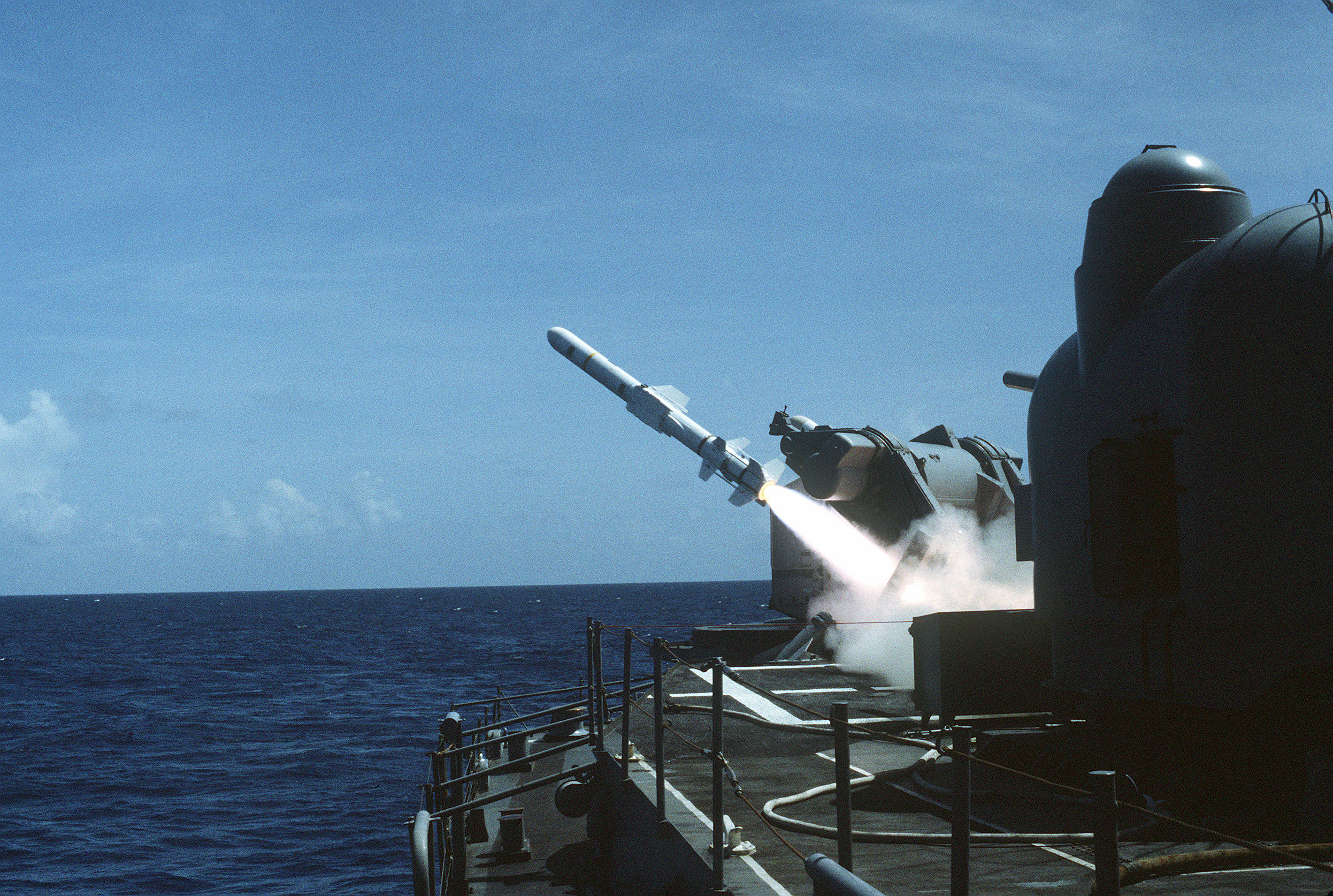 An RGM-84A Harpoon antiship cruise missile is fired from an Mk 11 launcher aboard the guided missile destroyer USS LAWRENCE (DDG 4). The missile is being fired at a target hulk during Exercise READEX 2-83 near Vieques Island, Puerto Rico.